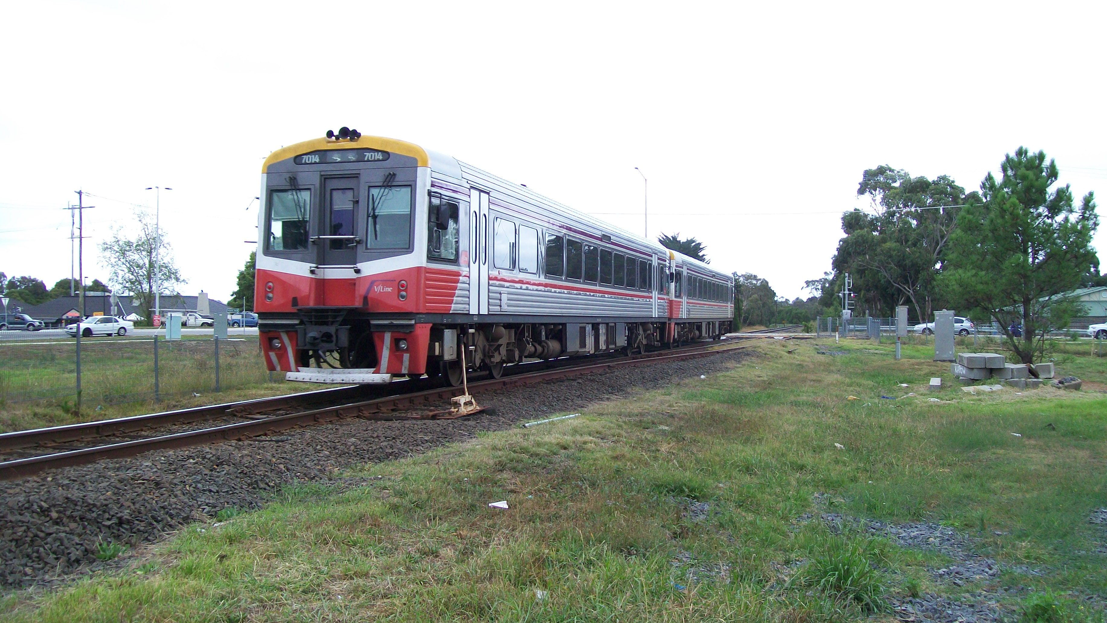 Sprinter units on Stony Point railway line, Melbourne in Baxter, Victoria.